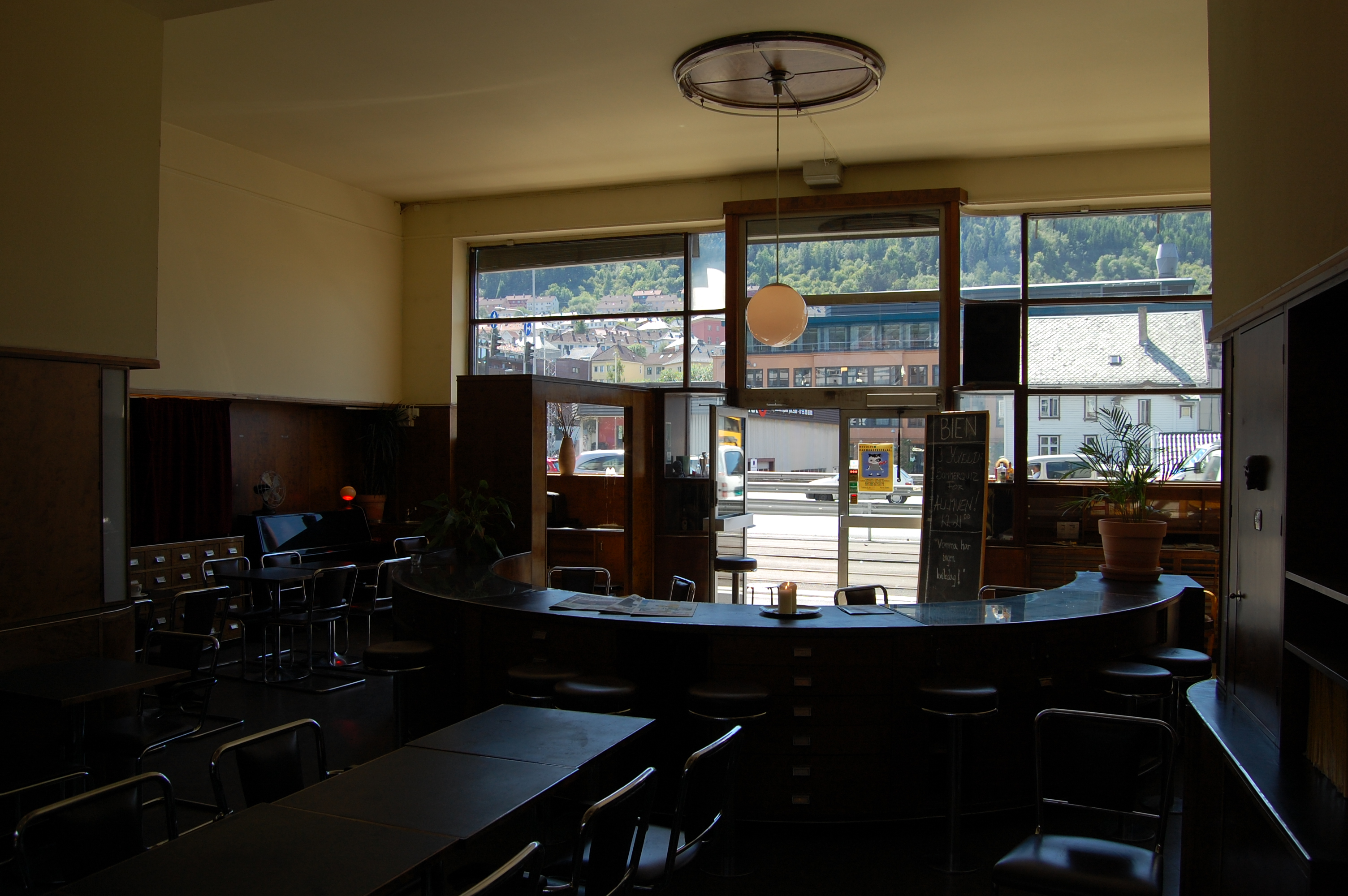 Bien bar, Bergen, Norway.